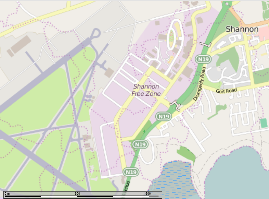 Open Street Map of the Shannon Free Zone. Crop from the Marble program.